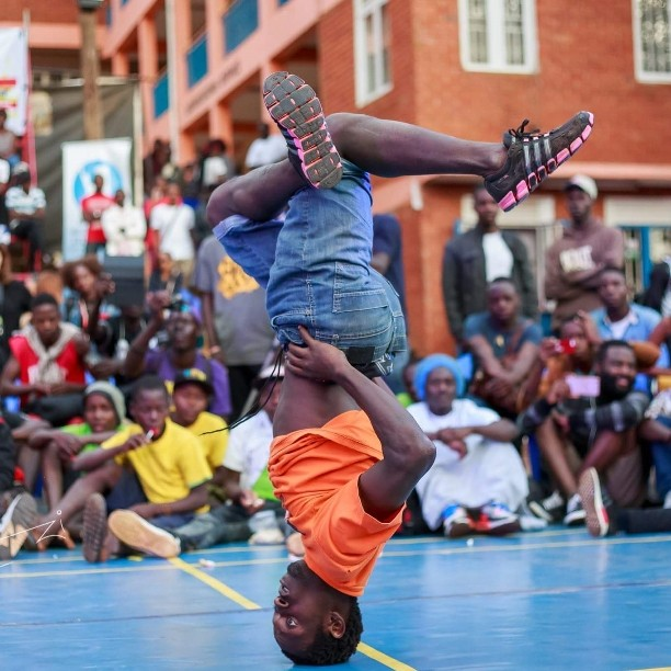 This was taken during the Breakfast Jam finals in Kampala Uganda on 19th of November 2016 at YMCA Wadegeya This is an image from Uganda